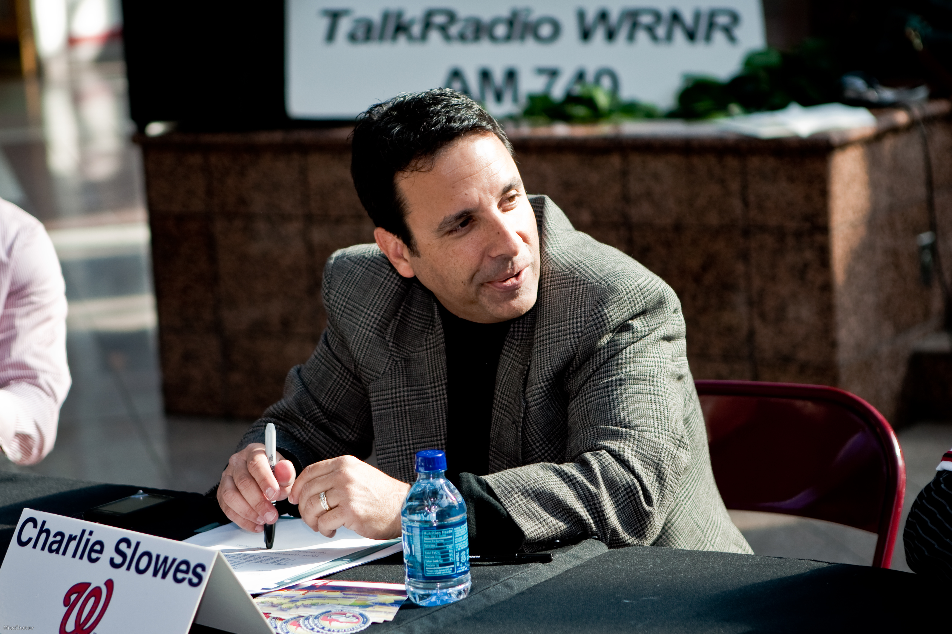 Washington Nationals broadcaster Charlie Slowes.